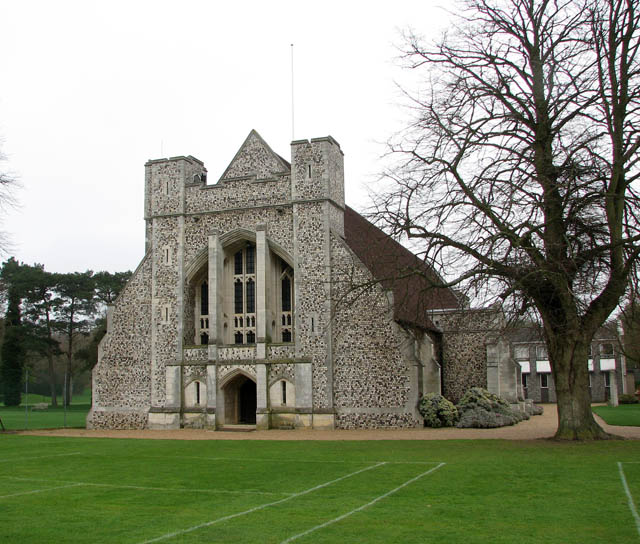 Gresham's School - the school chapel The west end of the chapel adjoins a playing field. The school chapel, designed by the Scottish architect Maxwell Ayrton, was built between 1912 and 1916, and is now a listed building. The foundation stone of the chapel was laid by the chairman of governors, Sir Edward Busk, on 8 June 1912. The Chapel bell was cast in Whitechapel in 1915 and is inscribed with the words Ring in the Christ that is to be, Donum Dedit J. R. E.. The Gresham family motto, Fiat voluntas tua ('Thy will be done') appears on the chapel's main door. The school was founded in 1555 by Sir John Gresham, who converted Holt’s Manor House into a Free Grammar School as a result of Henry VIII’s suppression of the Monasteries. It survived the Great Fire of 1708 which destroyed most of medieval Holt and was extensively enlarged and refurbished in Victorian times. Renamed ‘Old School House’ it currently serves as home to the Pre-Prep School. At the turn of the twentieth century, Gresham’s was refounded under the direction of a new and innovative headmaster, George Howson and the School moved to the existing site. The Senior School and Prep School are presently located along both sides of Cromer Road on the eastern edge of Holt. There are four boarding houses for boys and three for girls and a wide range of buildings which include Big School, the School Chapel, the Auden Theatre, the Cairns Centre, the School Library, the Music Centre, the Central Block, the Thatched Classrooms, the Reith Laboratories, the Biology Building, the Armoury, and others. In September 2005, Gresham's was one of the leading British schools.